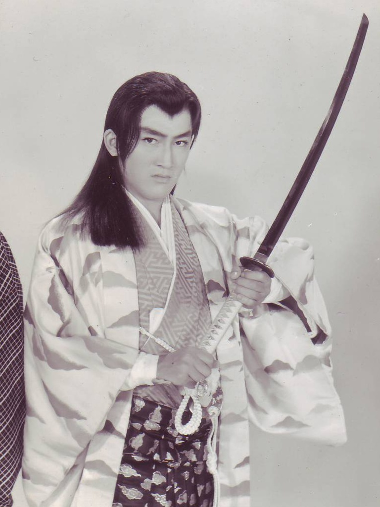 Hiroki Matsukata. Studio Still of the 1961 Japanese film "Wakagimi to JInanbo (Prince and the second son)" (Toei Company).